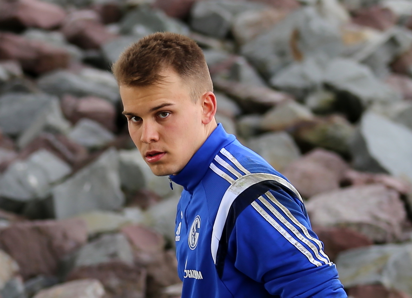 Timon Wellenreuther in training for FC Schalke 04 in April 2015